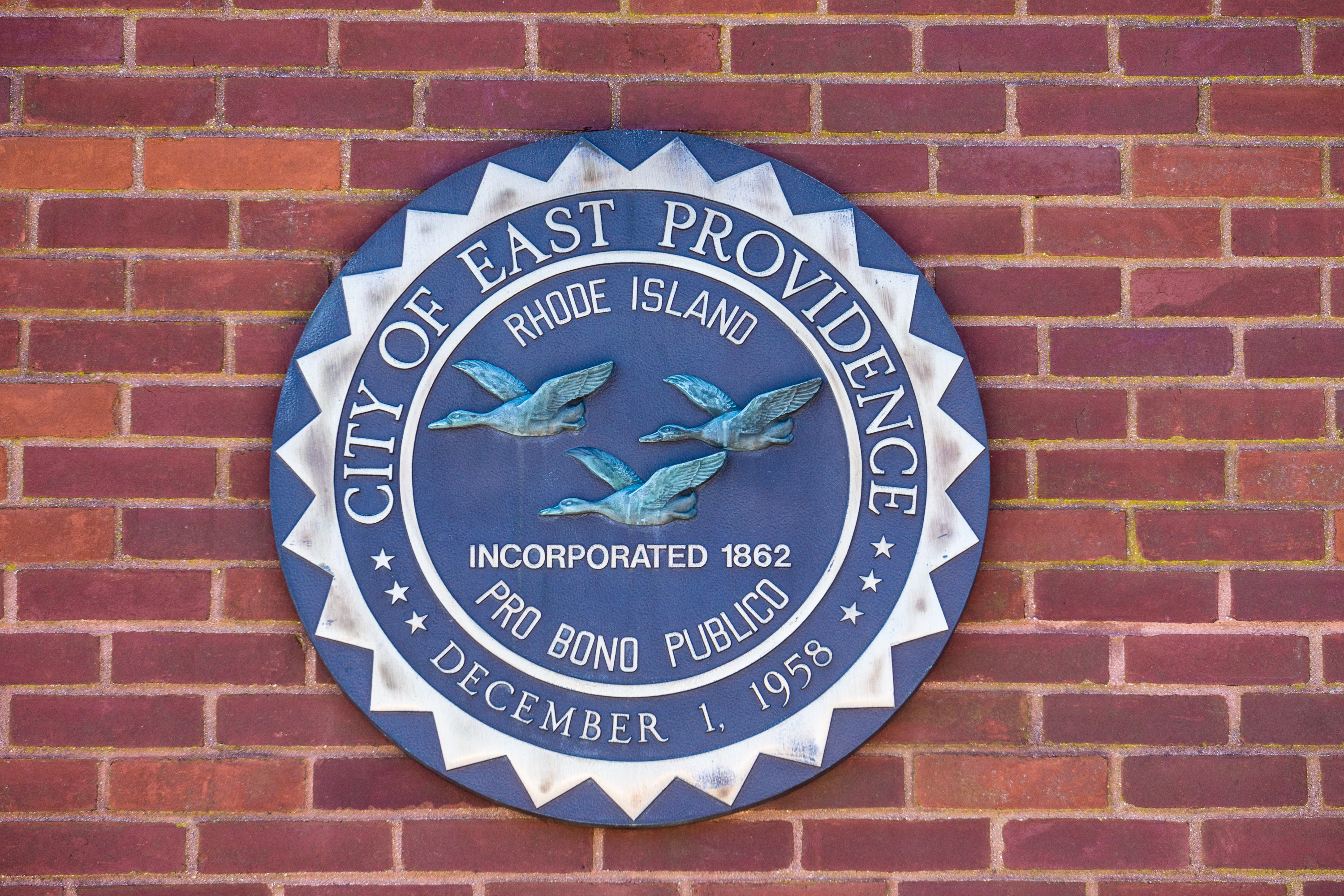 Seal of East Providence, Rhode Island at East Providence City Hall, Rhode Island